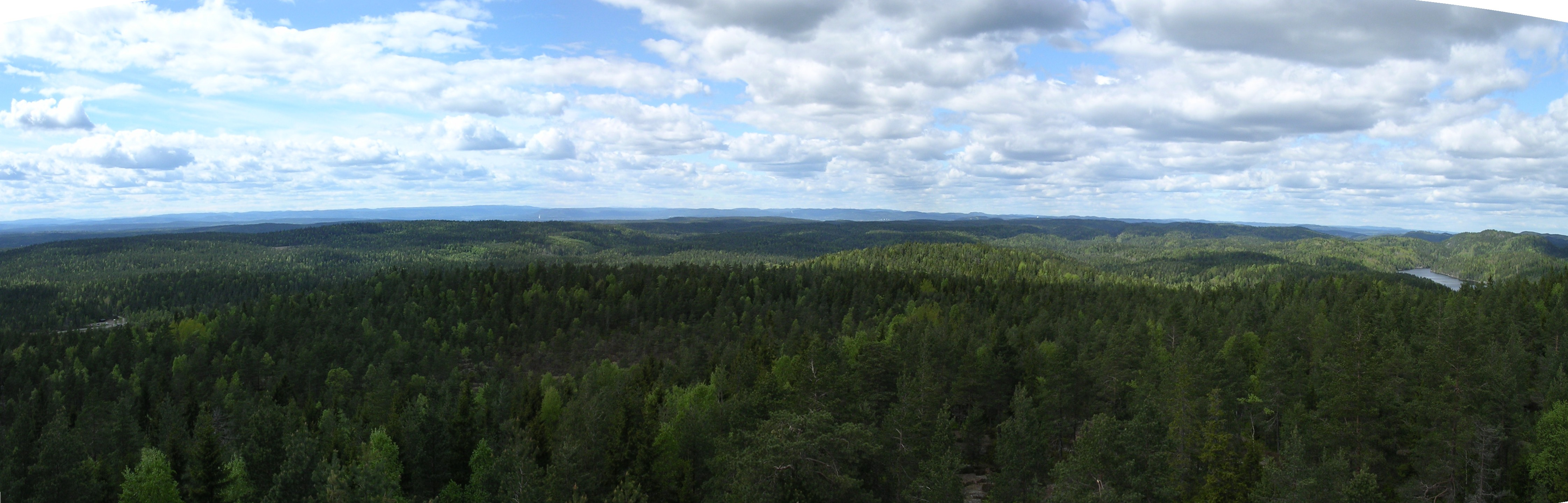 Picture of the forested Østmarka near Oslo, Norway. The picture is taken from the top Kjerringhøgda in the municipality of Enebakk.